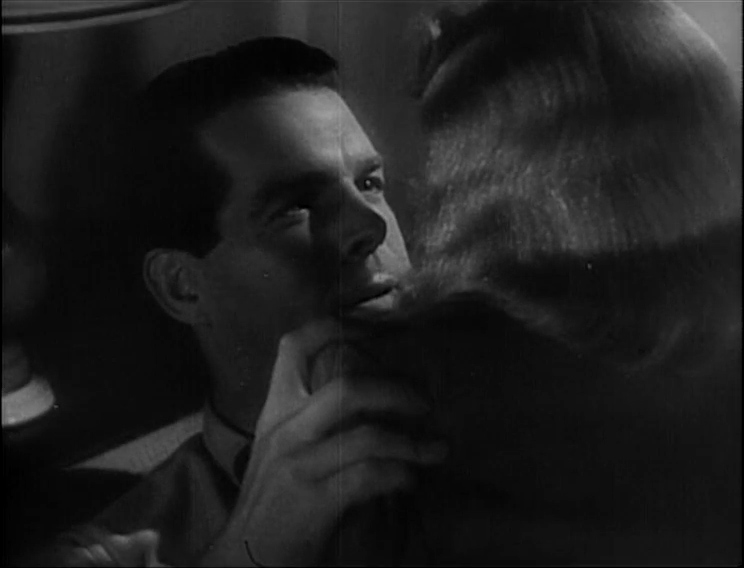 Cropped screenshot of Fred MacMurray from the trailer for the film Double Indemnity